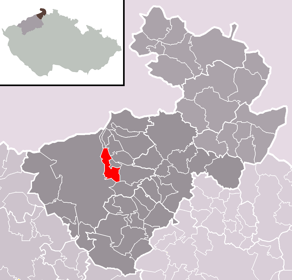 Location of Ludvíkovice municipality within Děčín District and administrative area of Děčín as a Municipality with Extended Competence.